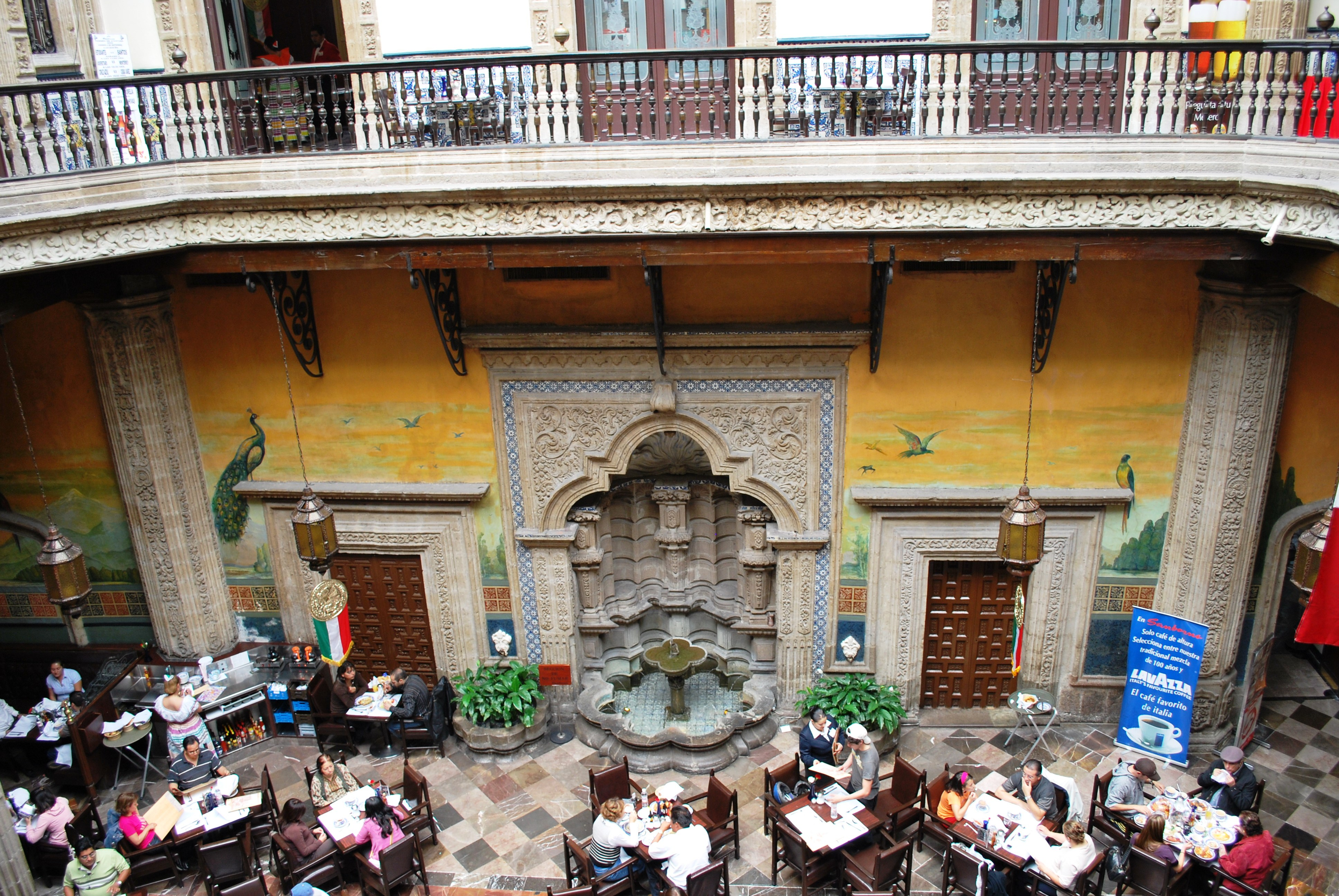 Fountain wall of the courtyard/restaurant area of the Casa de Azulejos in Mexico City's historic center.